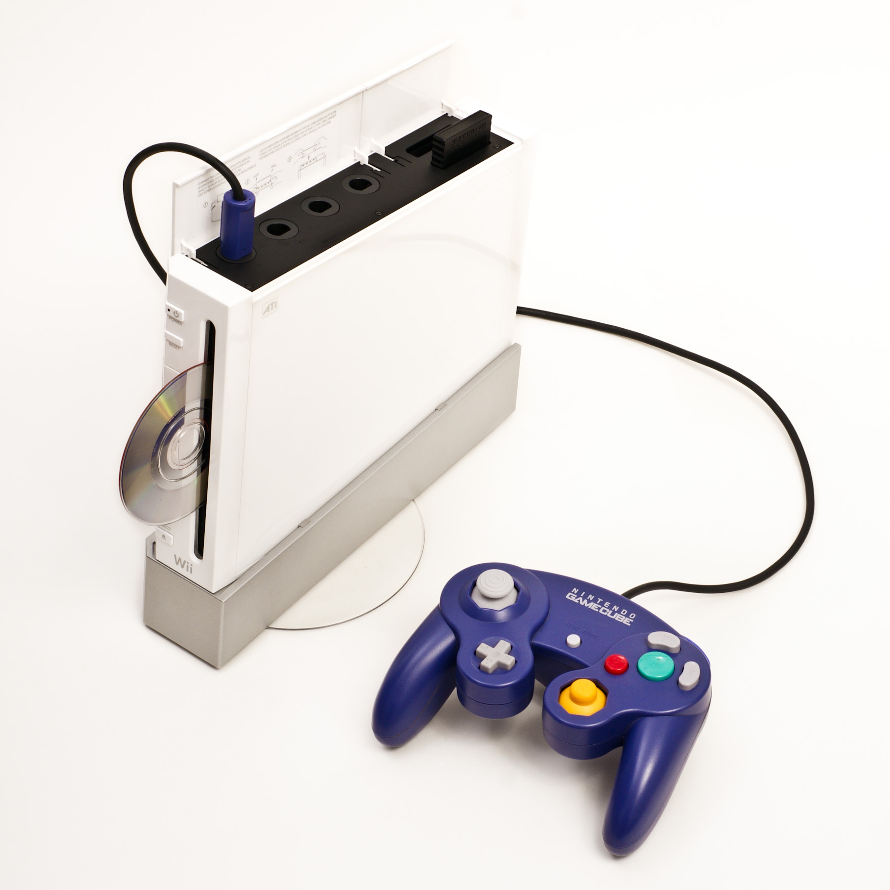 A Wii showing backwards compatibility with the Nintendo Gamecube.